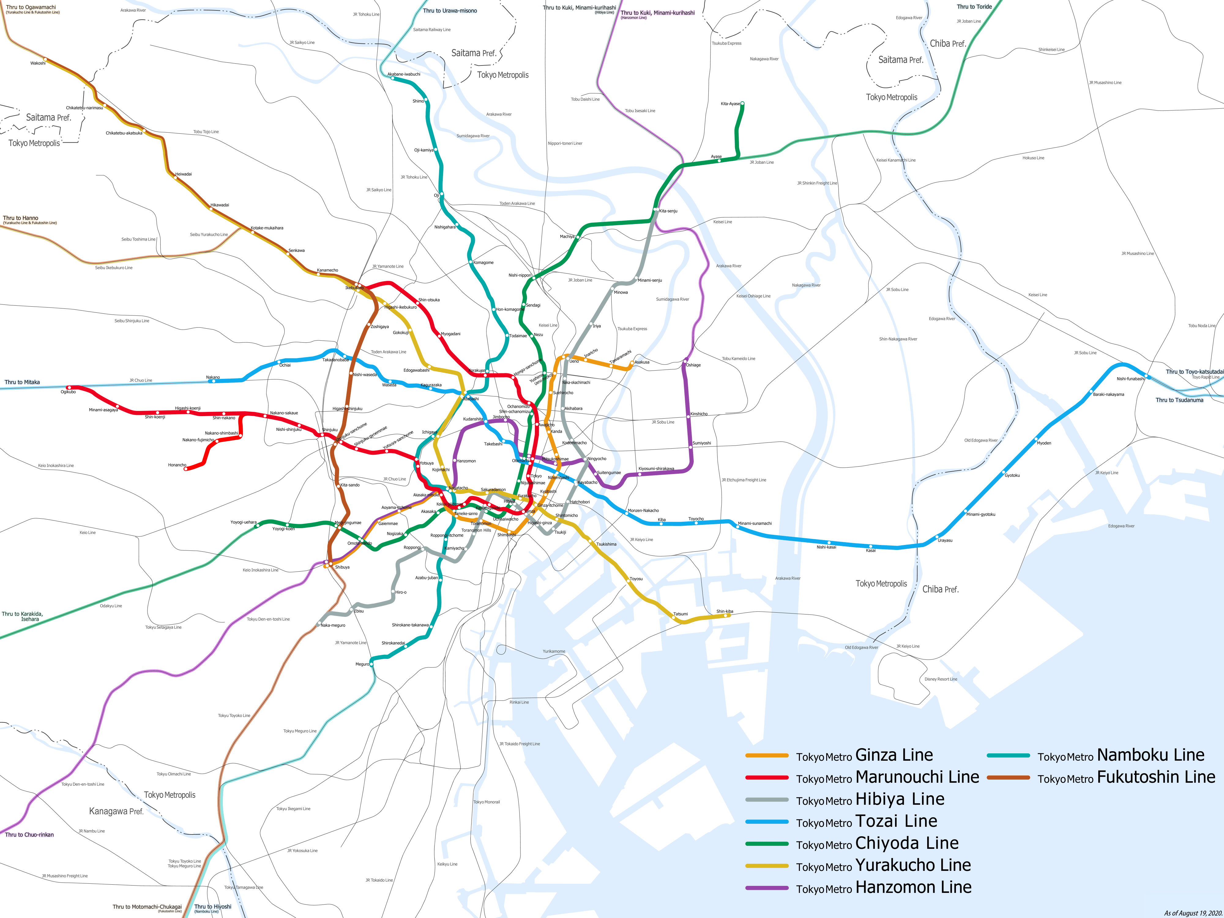 Map of Tokyo Metro lines （As of August 2020）